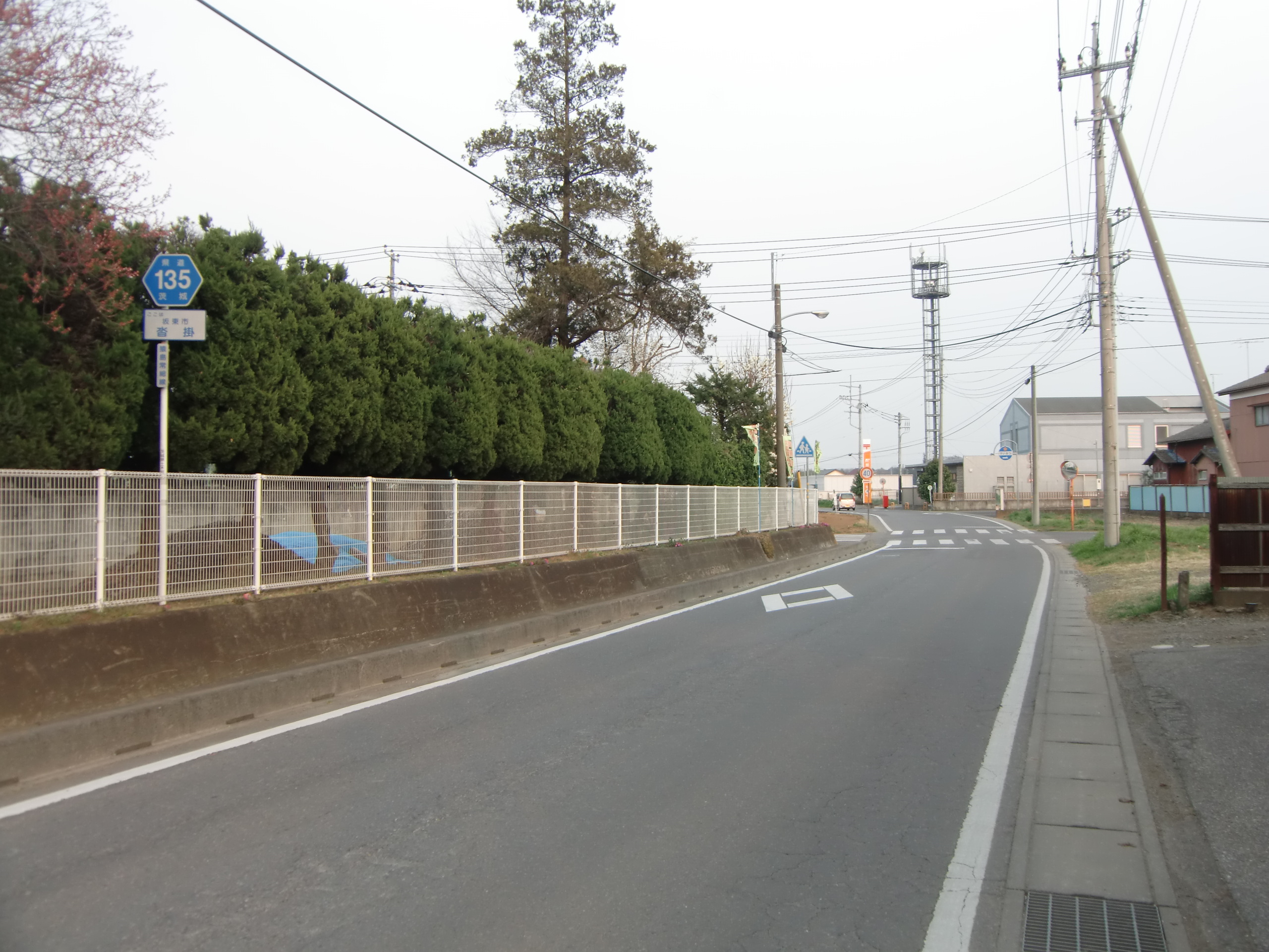 Ibaraki prefectural road 135(Sashima-Jōsō line) in Kutsukake, Bando-city, Ibaraki, Japan. This picture was taken near Kutsukake elementary school.